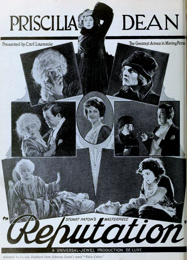 Advertisement for the American drama film Reputation (1921) with Priscilla Dean, on page 6 of the May 8, 1921 Film Daily (New York, Wid's Films and Film Folks, Inc.).